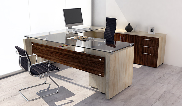 Office